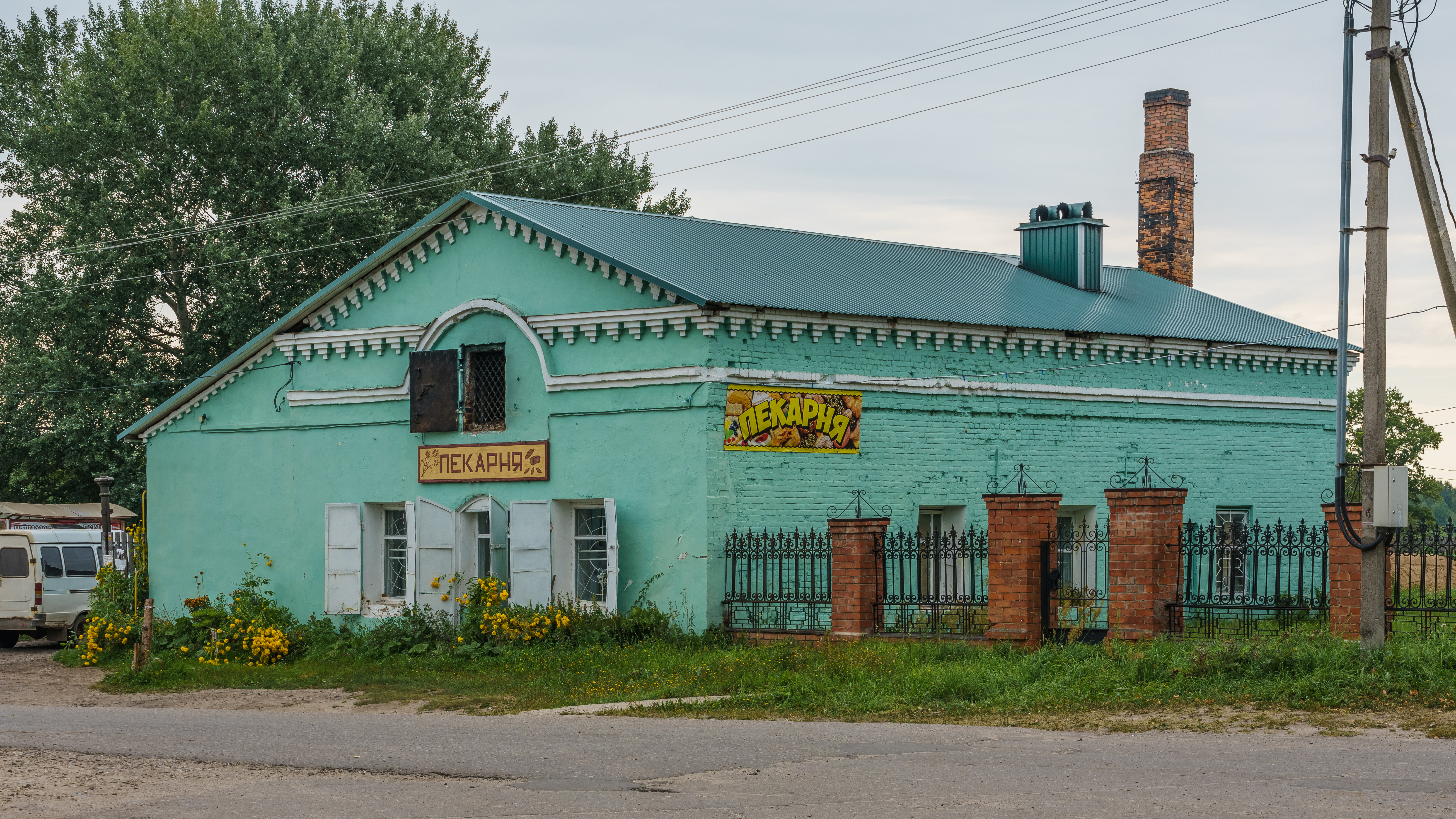 Historical center of Dunilovo, Ivanovo Oblast, Russia